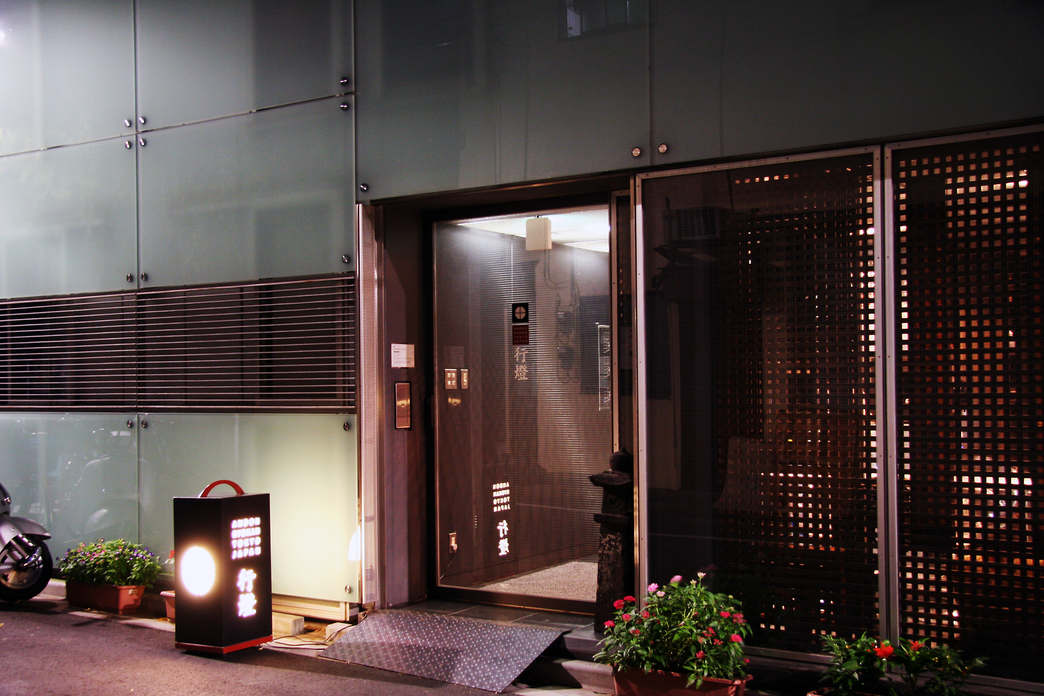 Andon Ryokan, a hostel in Tokyo, entrance, Japan. 行燈旅館入口、東京都台東区。